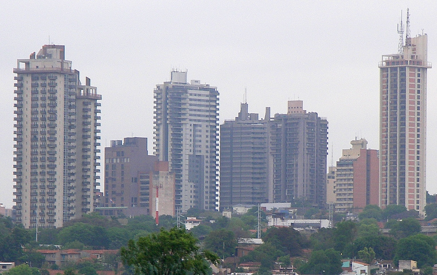 The capital city of Paraguay